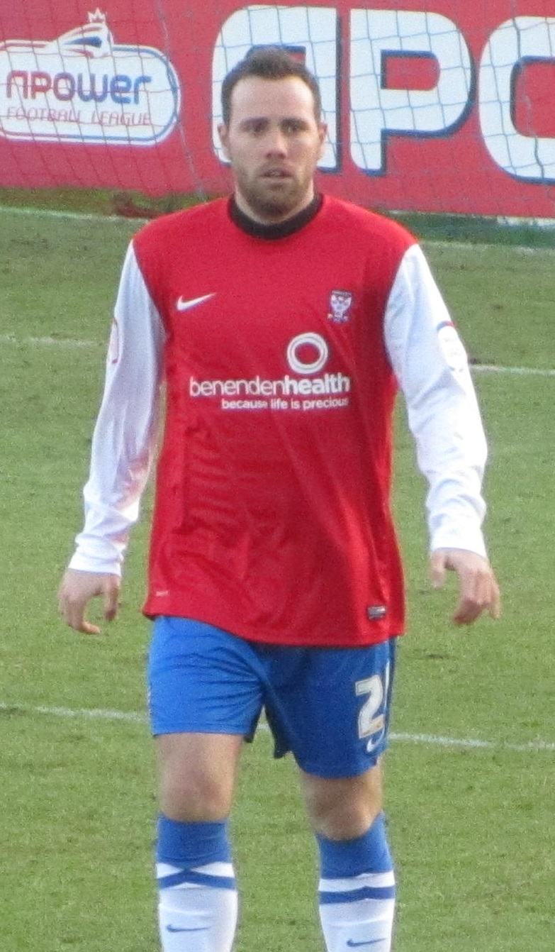 Ben Everson.